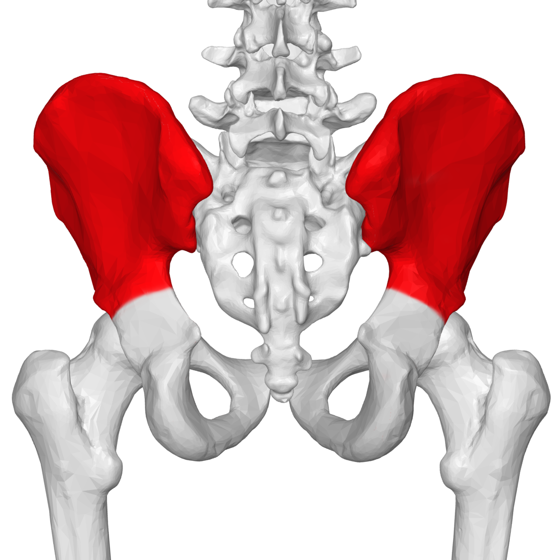 Ilium. Shown in red.